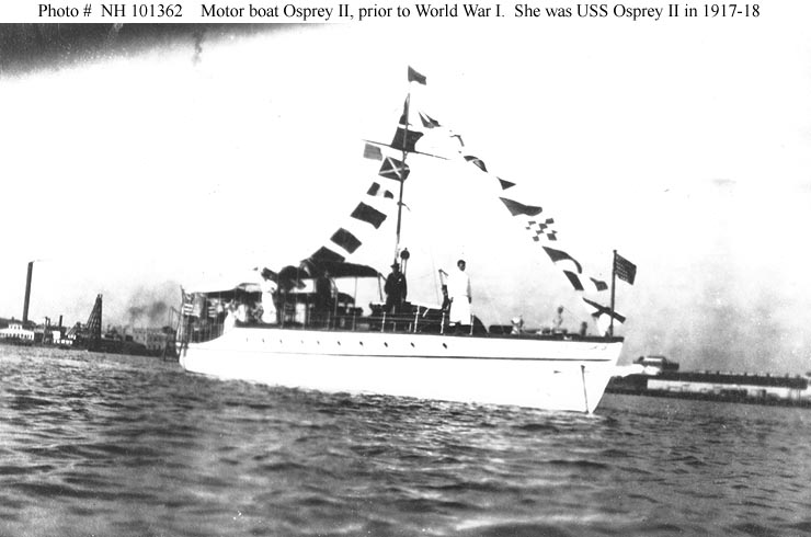 The private motorboat Osprey II prior to her United States Navy service as the patrol vessel